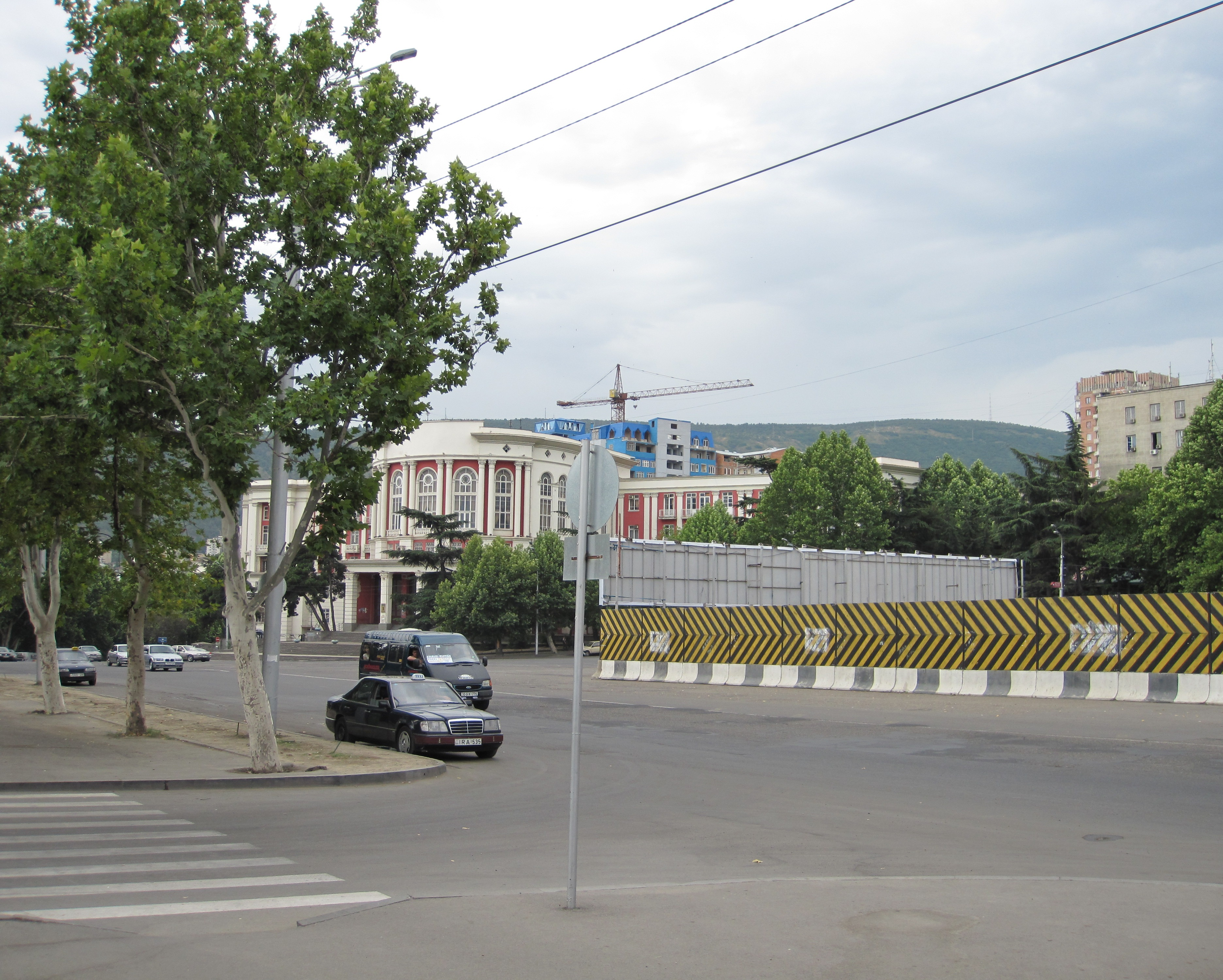 A corner of May 26 Square, Tbilisi, Georgia. The Tbilisi State Technical University building is seen on the left and the Hotel Achara complex under reconstruction on the right.